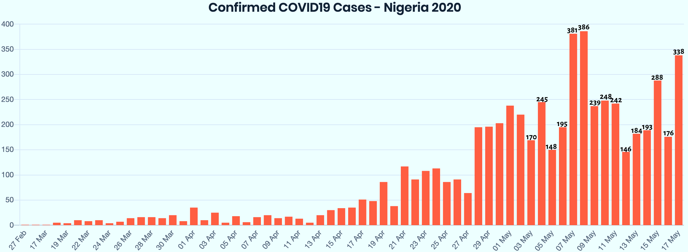 Nigeria COVID-19 daily case profile.